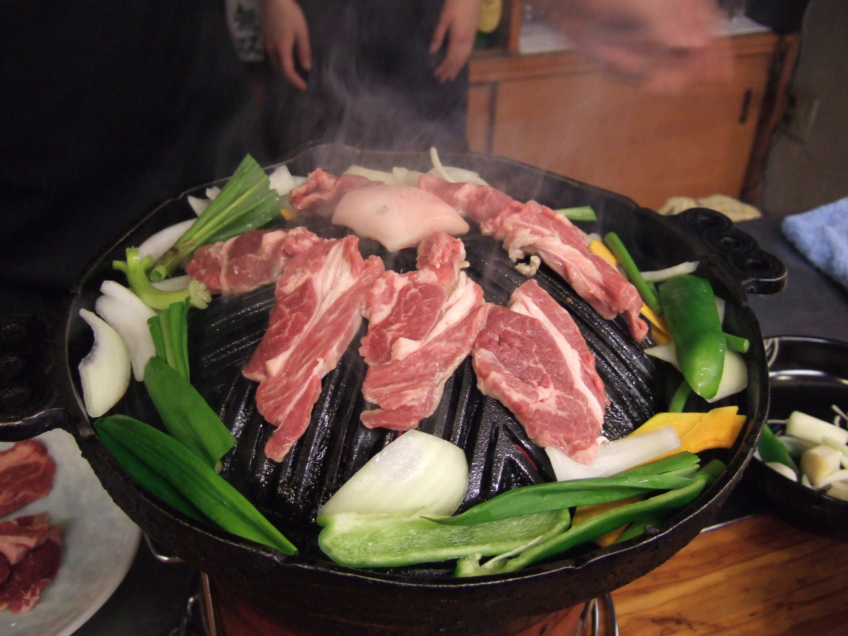 Non-freezed lamb chop was really good. This BBQ is called "Genghis Khan" in Japan.